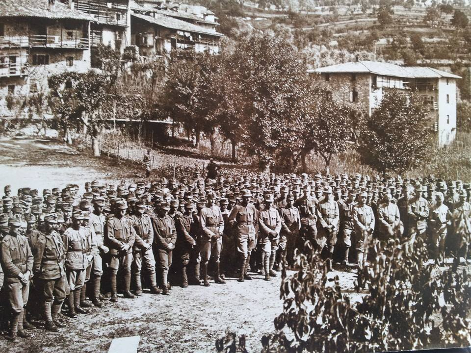 Castellano (Trentino), religious ceremony of the Kaiserjäger